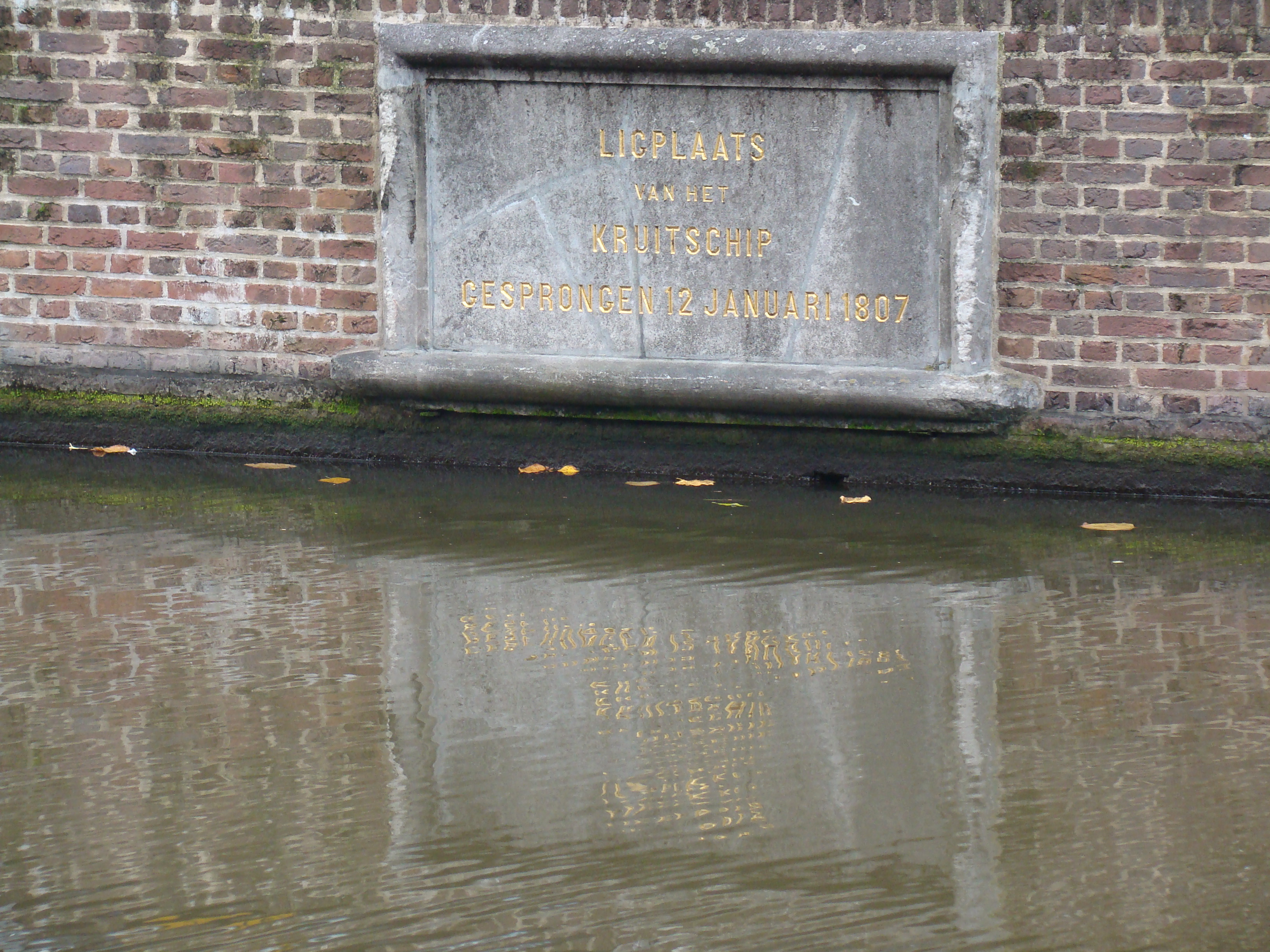 Gunpowder disaster Leiden, Netherlands